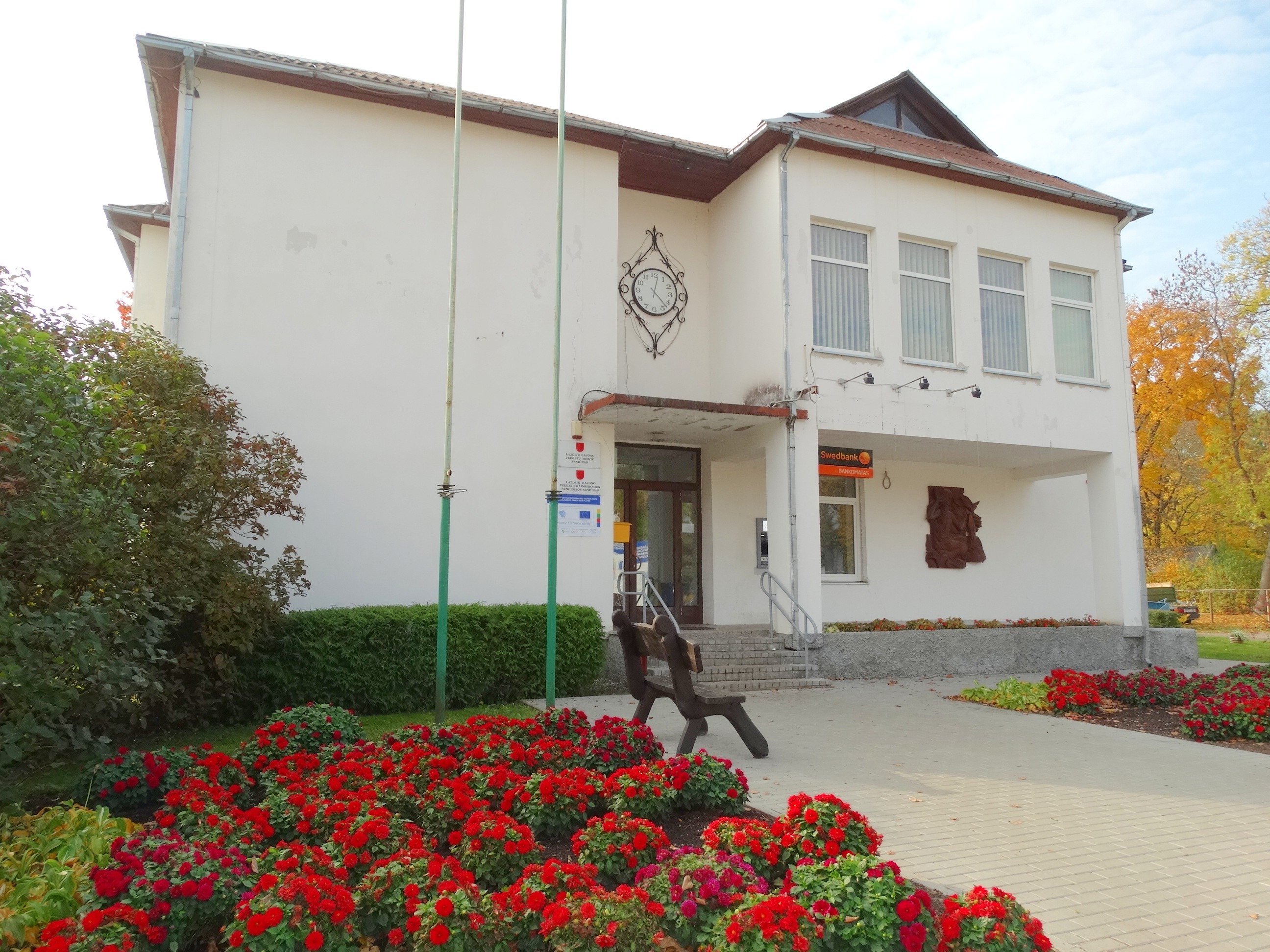 Eldership, Veisiejai, Lazdijai District, Lithuania